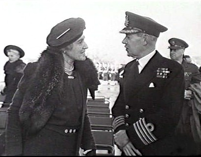 HM Dockyard, Devonport, England. Lady Gowrie, wife of the former Governor-General of Australia, with Captain R. R. Dowling DSO RAN, commanding officer of the ship, at the naming ceremony of Australia's first aircraft carrier HMAS Sydney (III). (Naval Historical Collection).